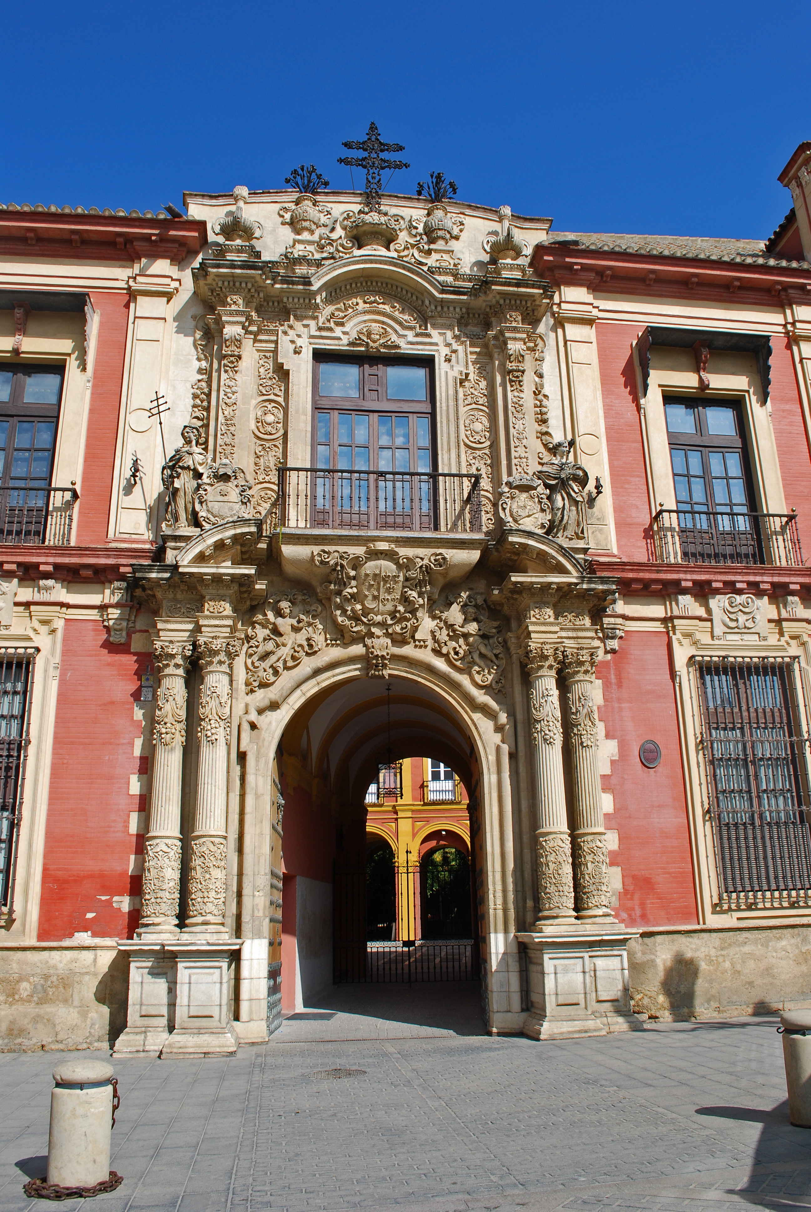 Main gate of the archbishop palace of Seville